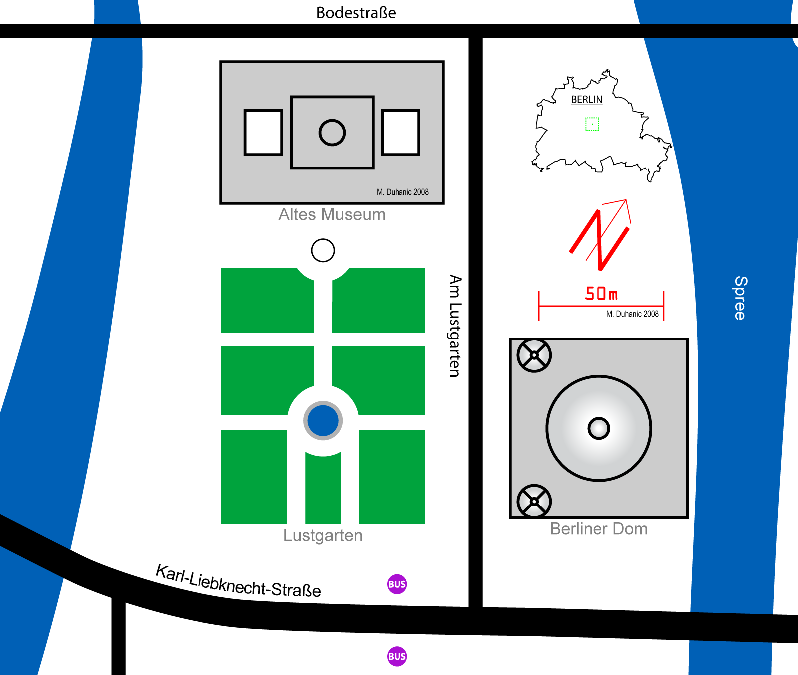 Schematic map of the Berlin "Lustgarten", the Altes Museum (Old Museum) and the Berliner Dom and environment. Included is a tiny map of Berlin with the map's location marked on it.